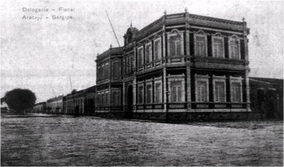 Building of the Federal Revenue Service. Delegacia da Receita Federal 1920 Aracaju, state of Sergipe, Brazil.